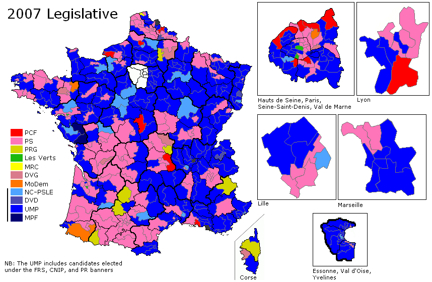 Self-made map of round two results